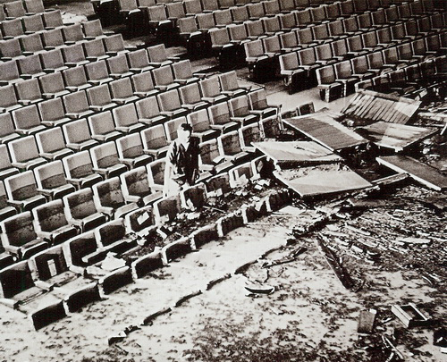 June 12 floods in 1966, Hong Kong.